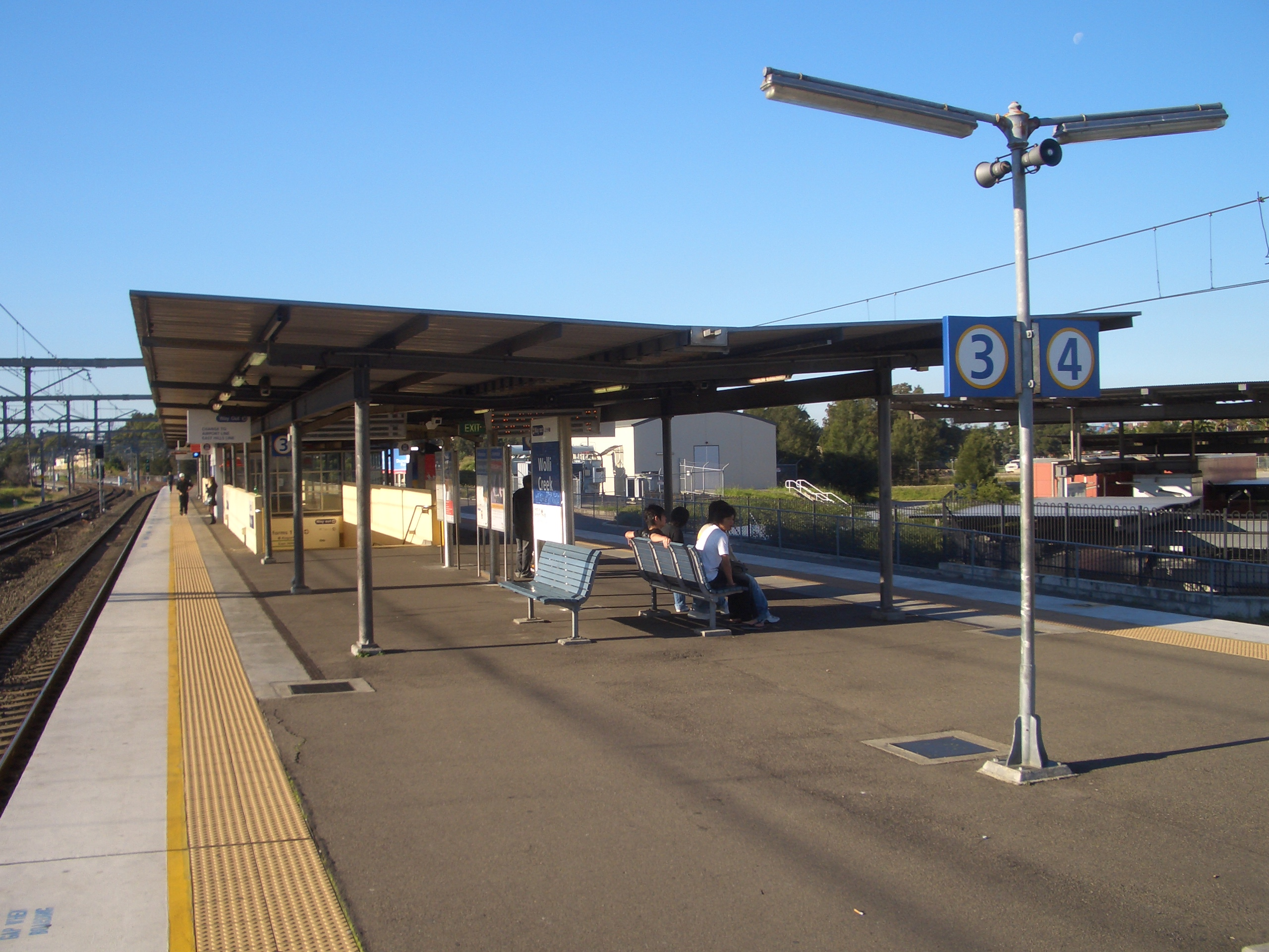 Wolli Creek Railway Station